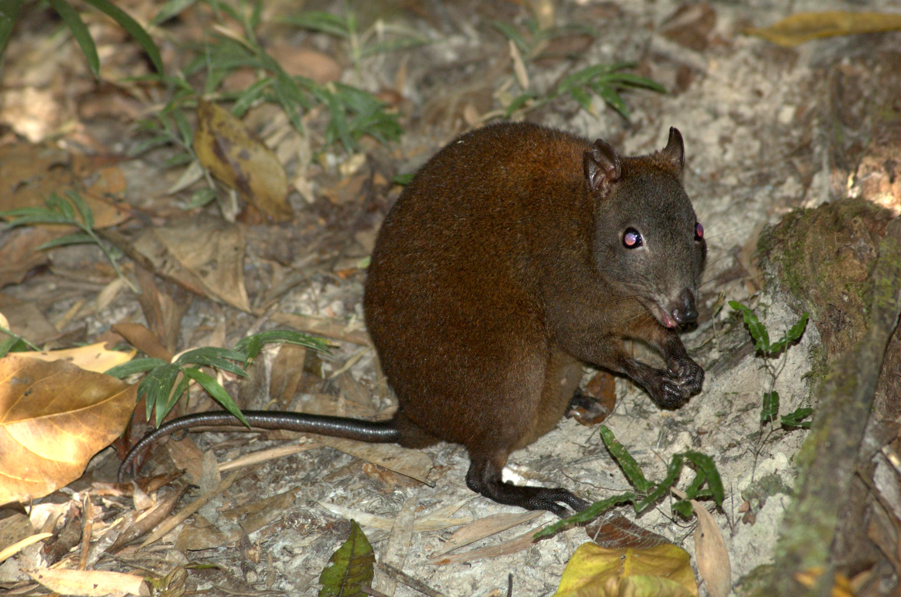 Musky rat-kangaroo in Queensland, Australia.